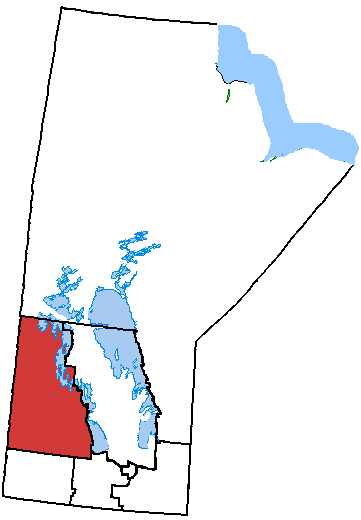 Map of the Dauphin—Swan River—Marquette electoral district. Based on Earl Andrew's maps, created by SimonP.